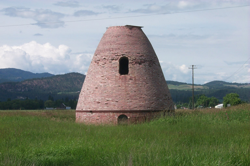 A beehive kiln in Chewelah, Stevens County, Washington, USA. Along highway 395, west side as you are entering the town of Chewelah. As of 1999 it was owned by Alcoa.